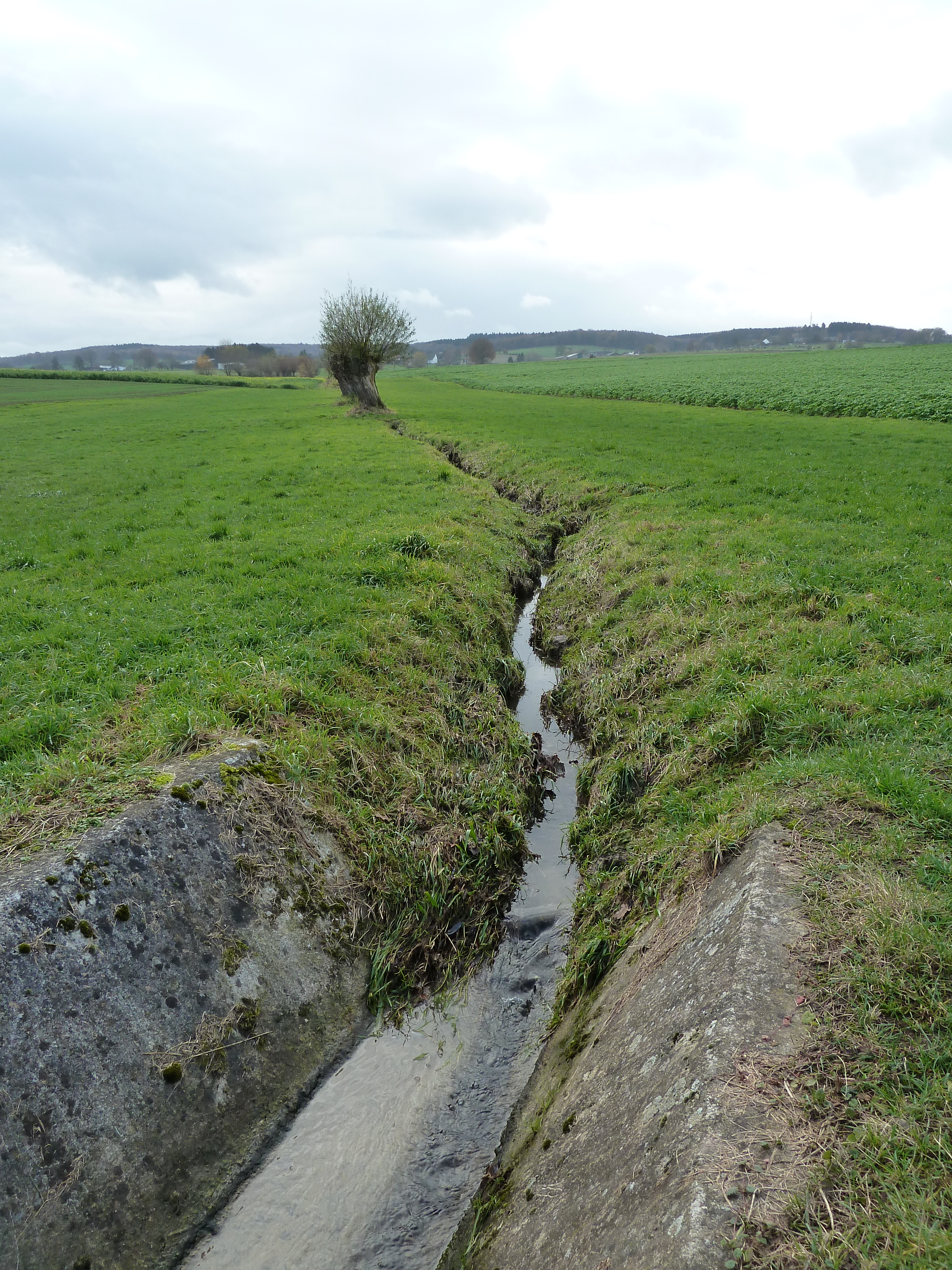 Harleserbeek crosses the Oude Trichterweg, Lemiers, Limburg, the Netherlands